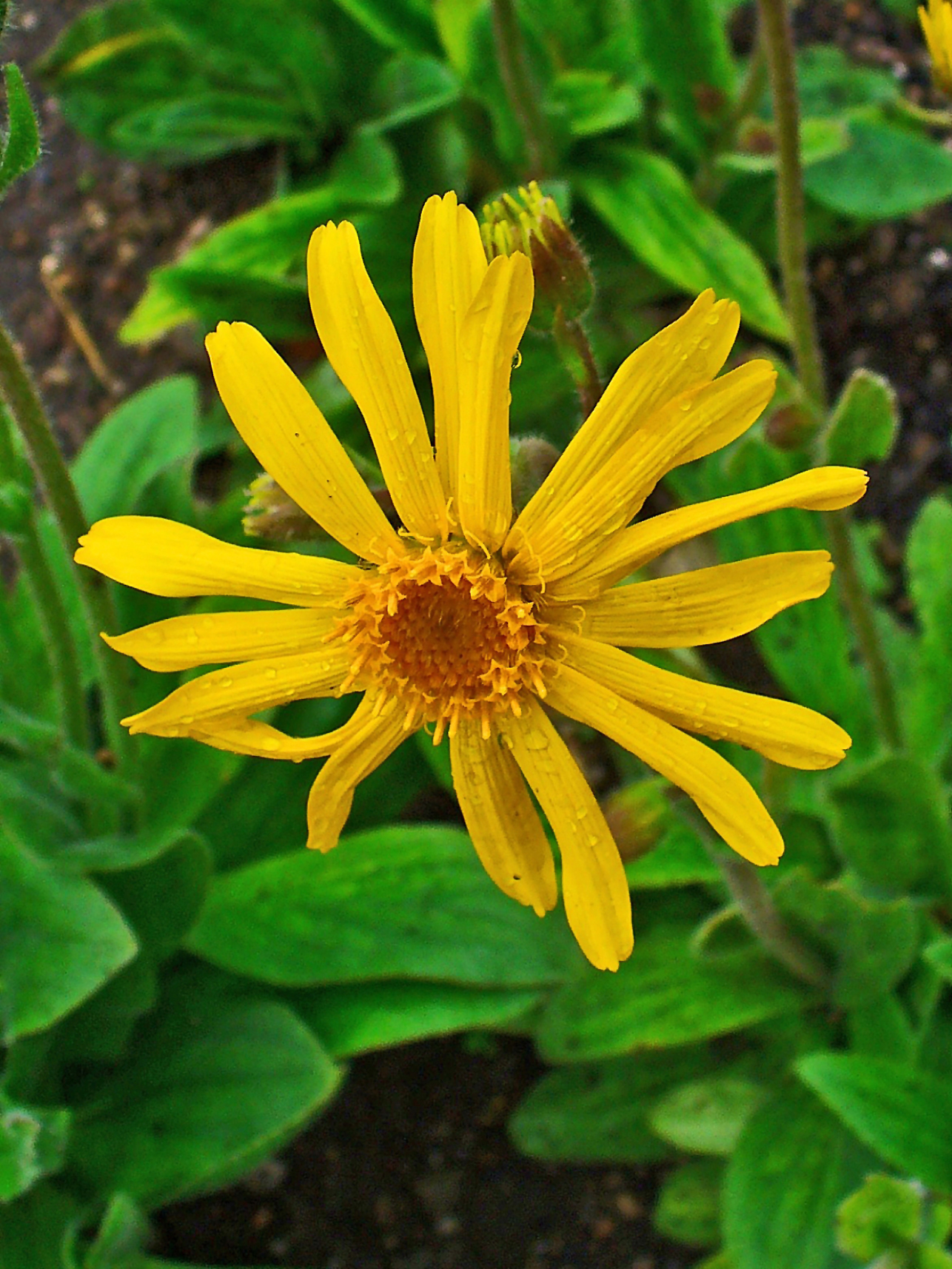 Arnica montana, Asteraceae, Mountain Arnica, Wolf’s bane, inflorescence; Botanical Garden KIT, Karlsruhe, Germany. The dried subterranean parts are used in homeopathy as remedy: Arnica (Arn.)